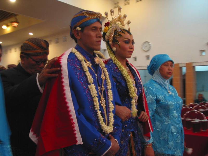 Javanese marriage ceremony, Surakarta (Solo)